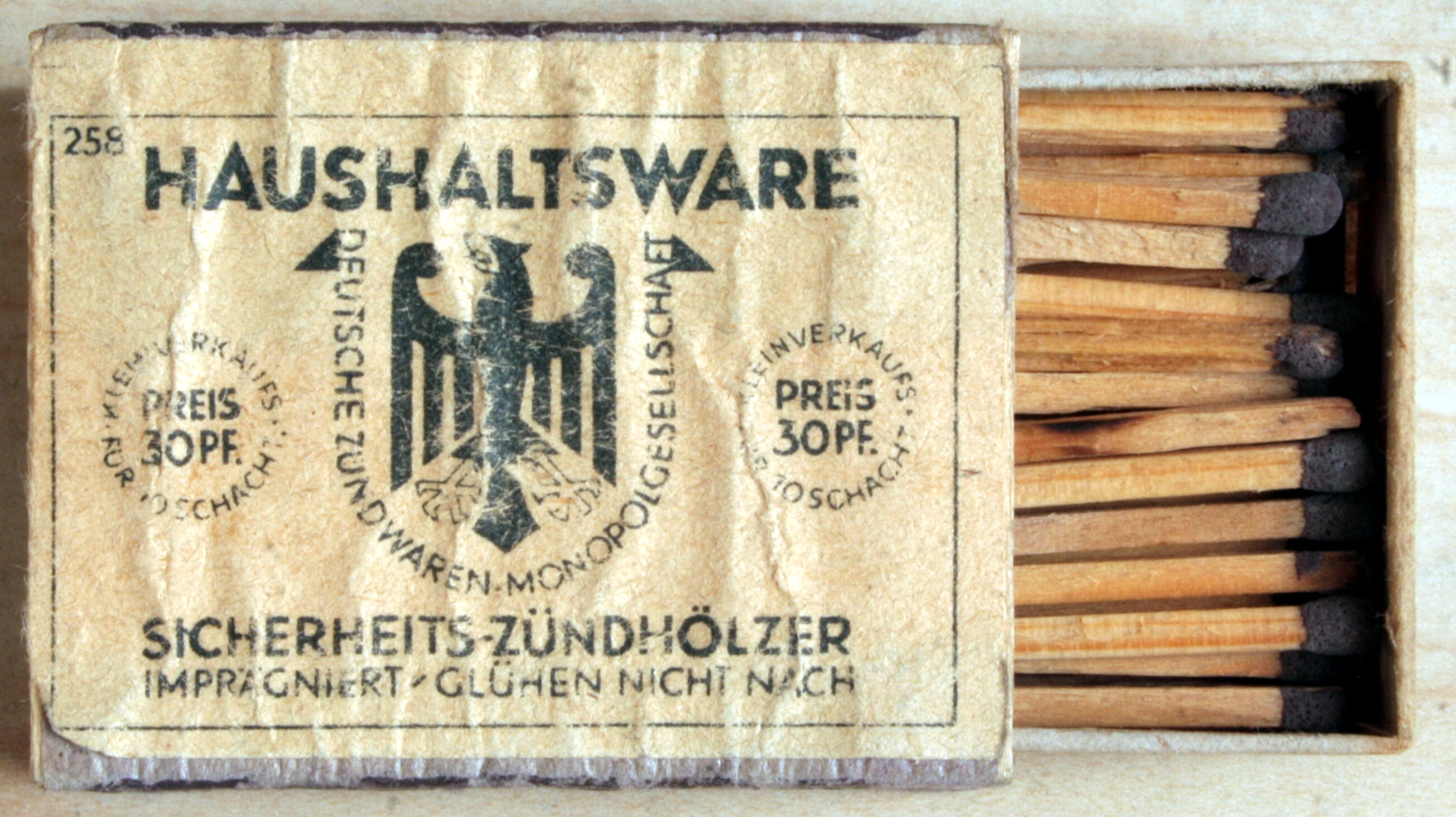 Matchbox Haushaltsware – The price of 30 Pfennig printed on the box is for 10 boxes.